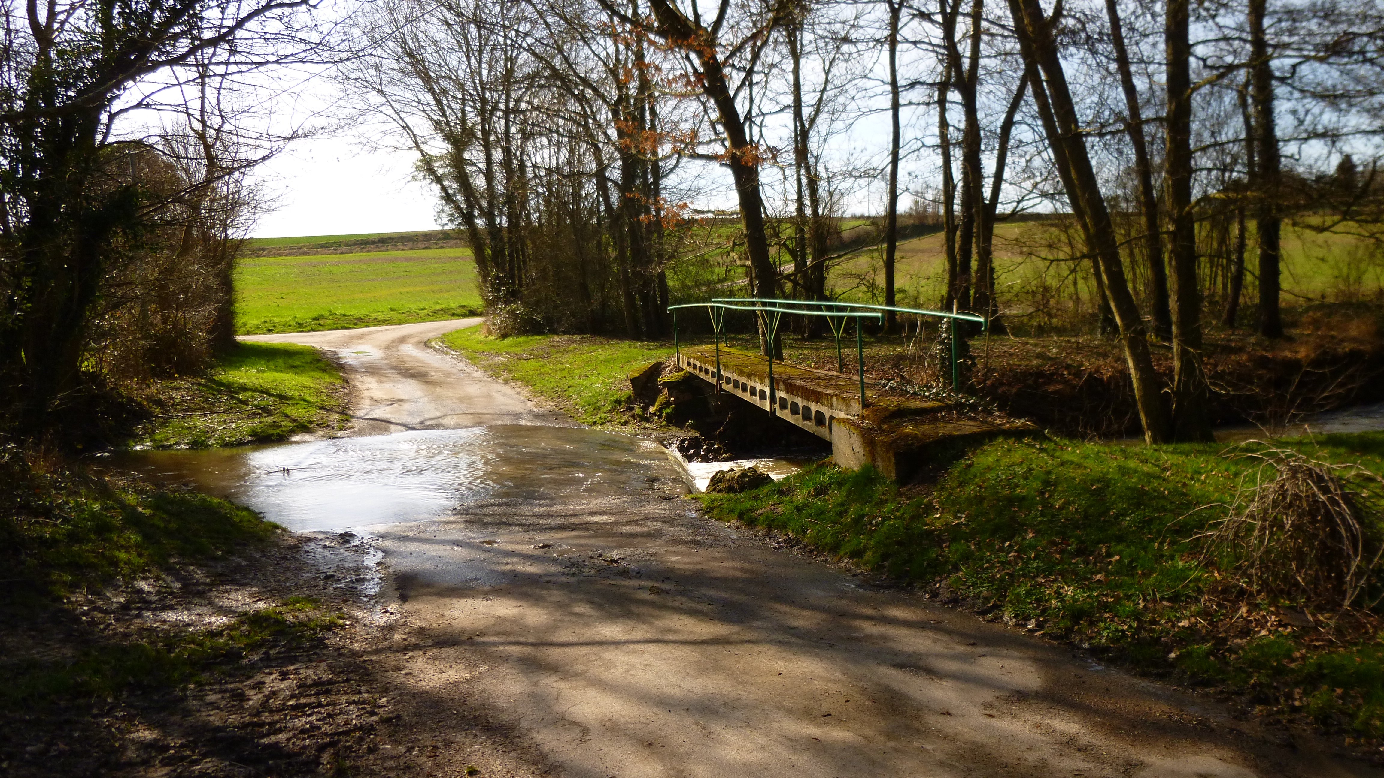 Perreux, Yonne, Burgundy, France. The ru des Pierres S-E of Perreux, at the Moulin de la Coudre (La Coudre mill). Looking south. The footbridge reuses two electricity posts and 4 railway blocks. The ru des Pierres changes its name a couple of km downstream, and becomes the Péruseau - its official name.